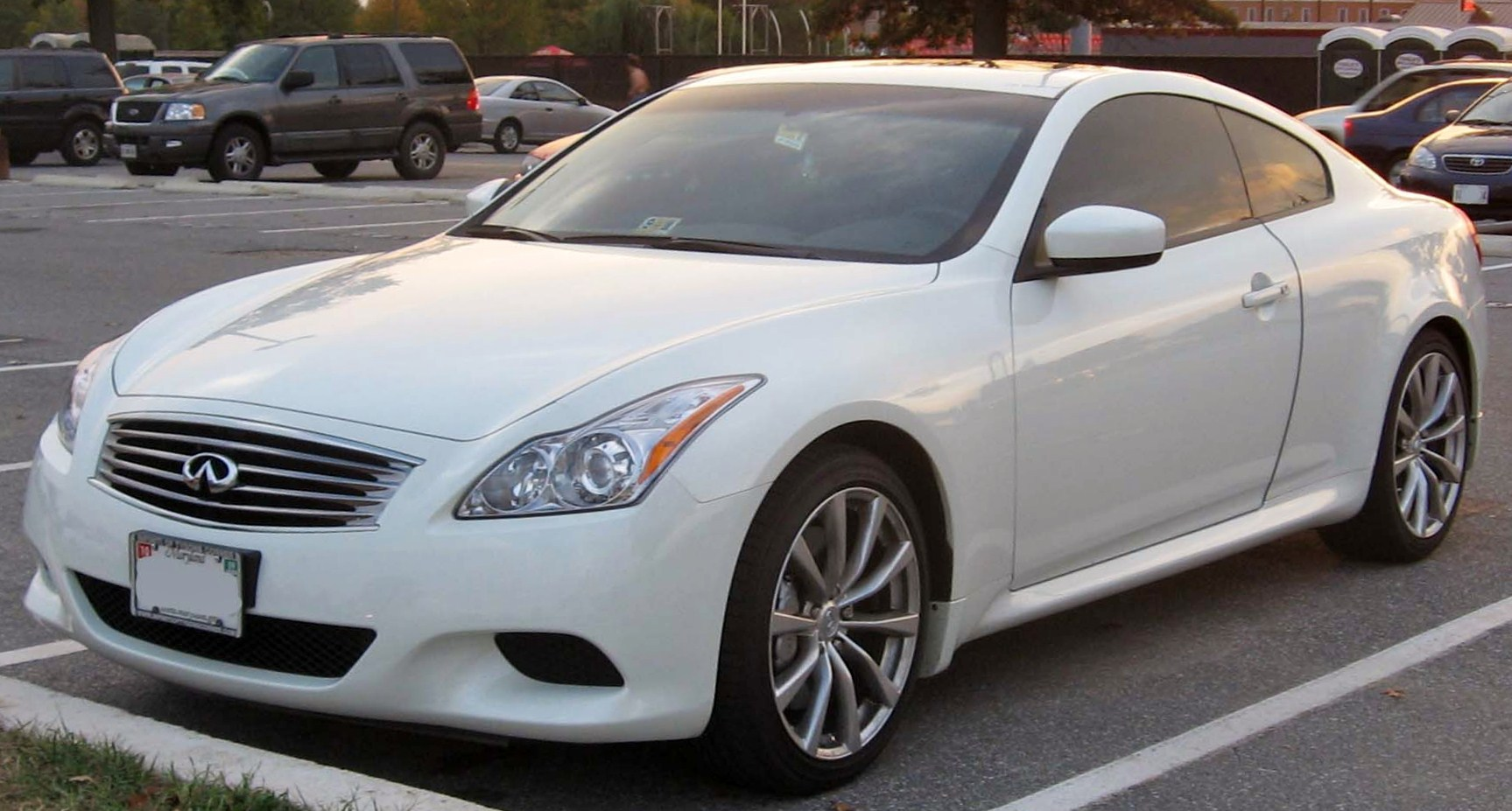 2008 Infiniti G37 photographed in College Park, Maryland, USA.